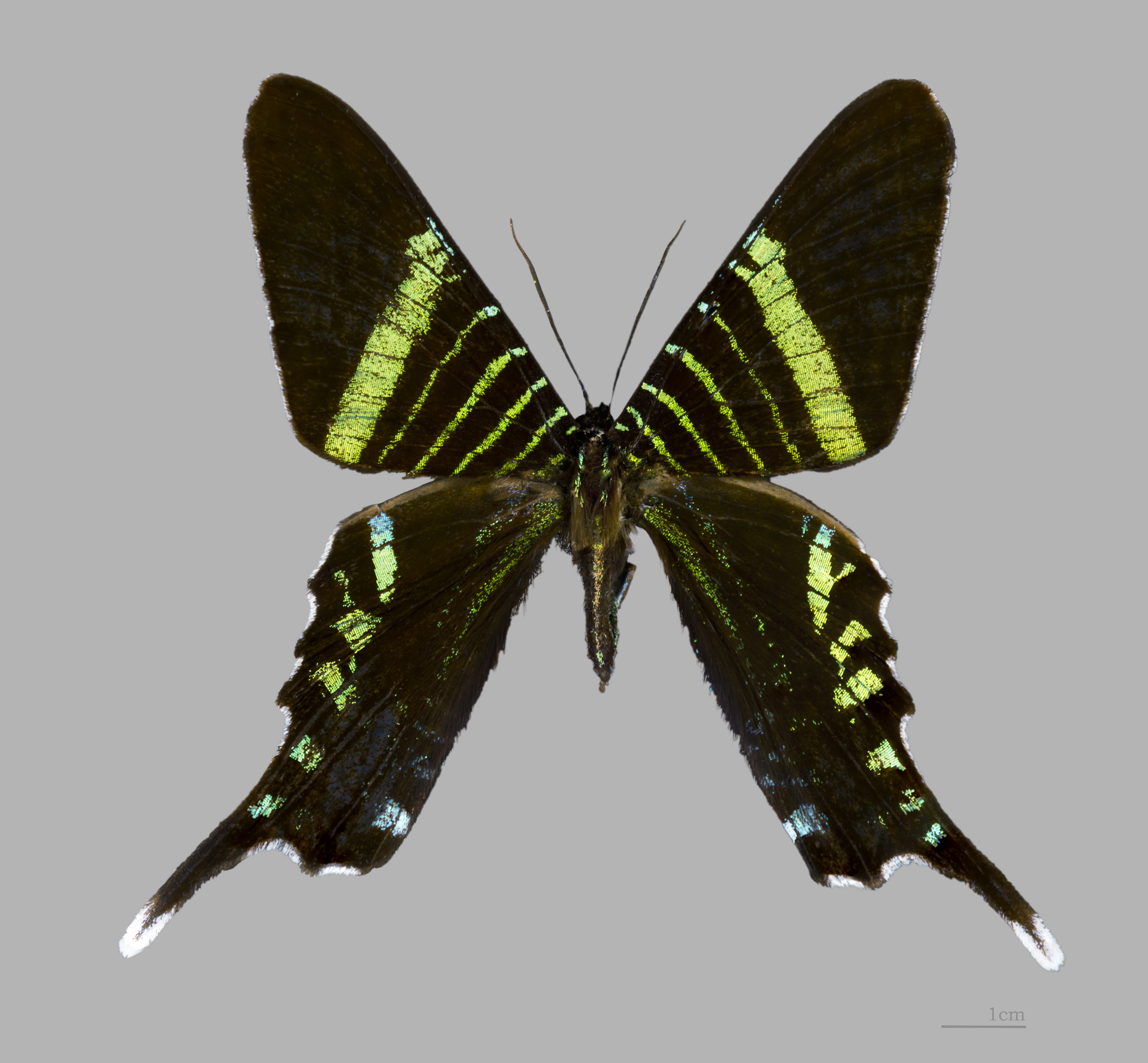 Urania Swallowtail Moth - Dorsal side